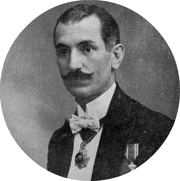 Photograph of Victor Gomoiu, the Romanian physician and medial historian. Approximate date is suggested by his wearing of wartime decorations.